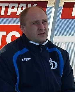 Aleksandr Smirnov as a coach of FC Dynamo Moscow